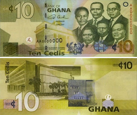 10 Ghana Cedis banknote